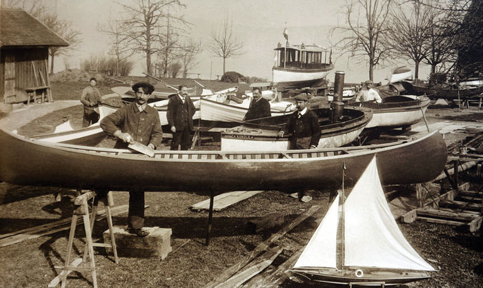 1914, Augusto Pedrazzini, Wollishofen Zurich, Switzerland